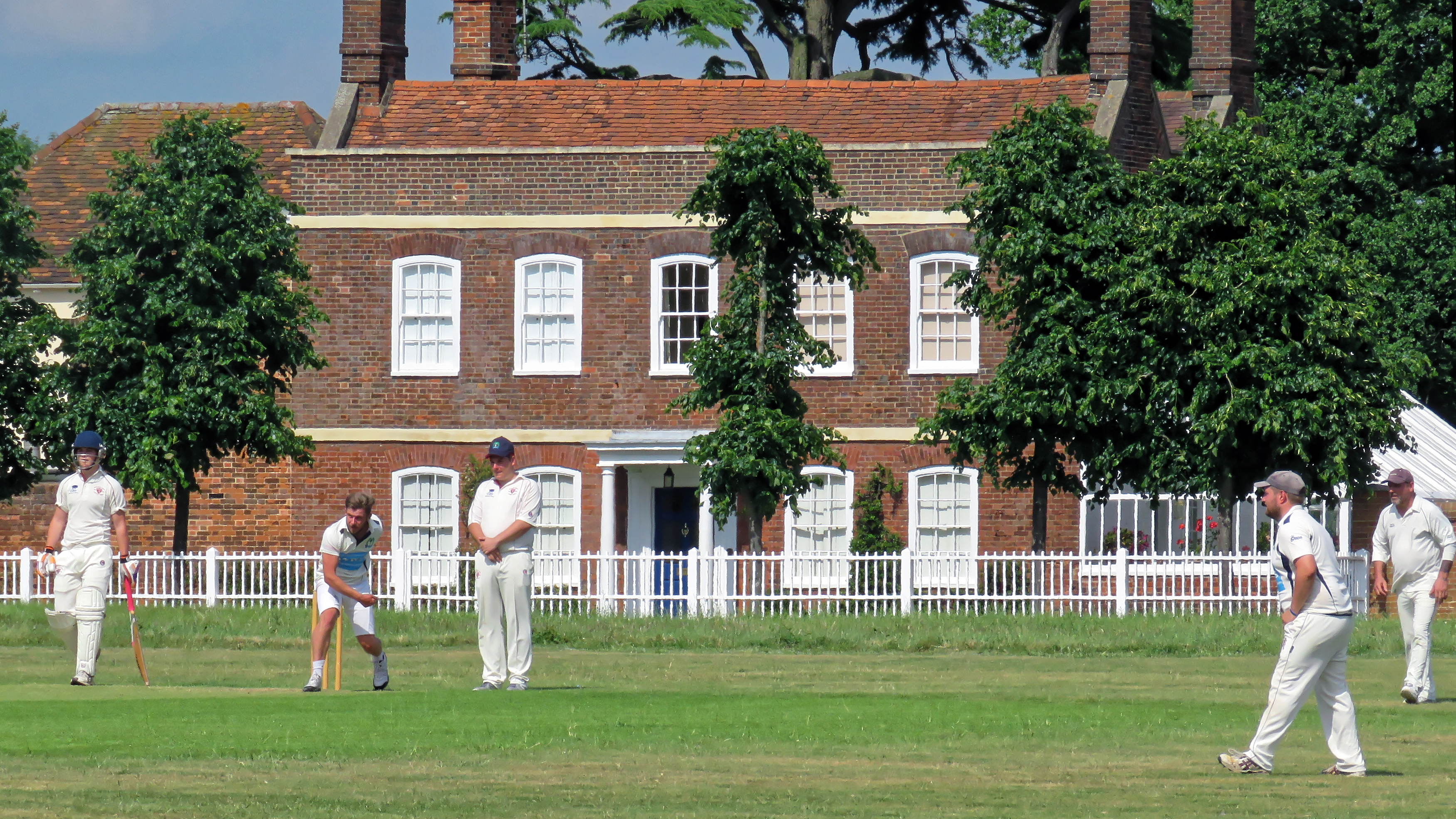 Saturday match day between Matching Green CC 2nd XI (batting), and High Beach CC on the village green at Matching Green, Essex, England. In the background is 'The Limes', a Grade II listed 18th-century house.Camera: Canon PowerShot SX60 HSSoftware: File lens-corrected, optimized, perhaps cropped, with DxO OpticsPro 11 Elite, and likely further optimized with Adobe Photoshop CS2.